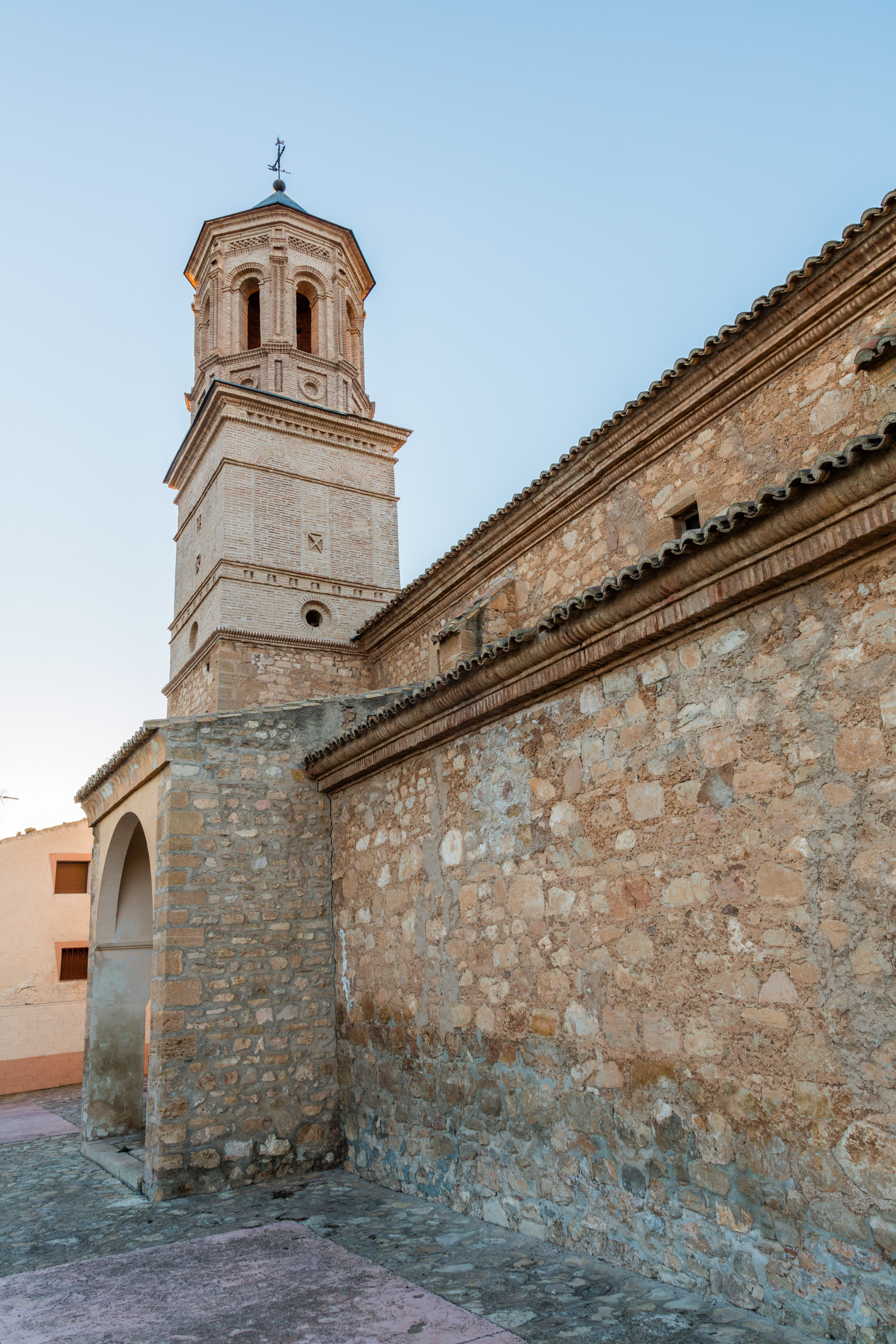 Church of St. Eulalia, Moneva, Saragossa, Spain